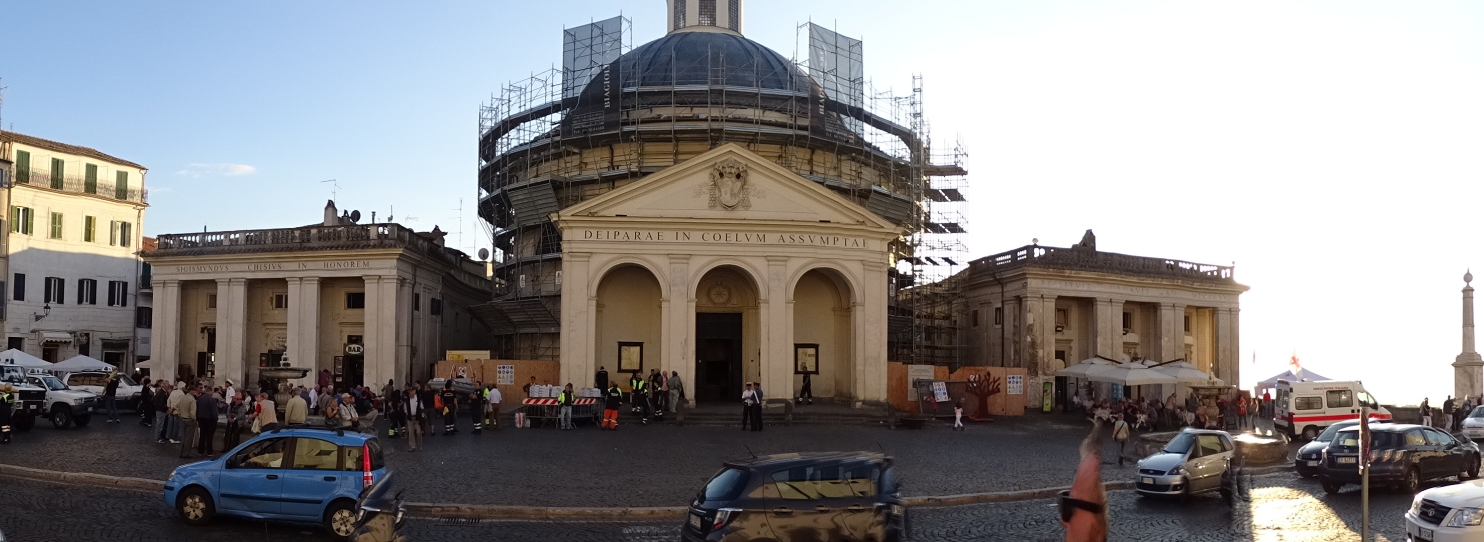 Church of Santa Maria Assunta and Cielo, Ariccia